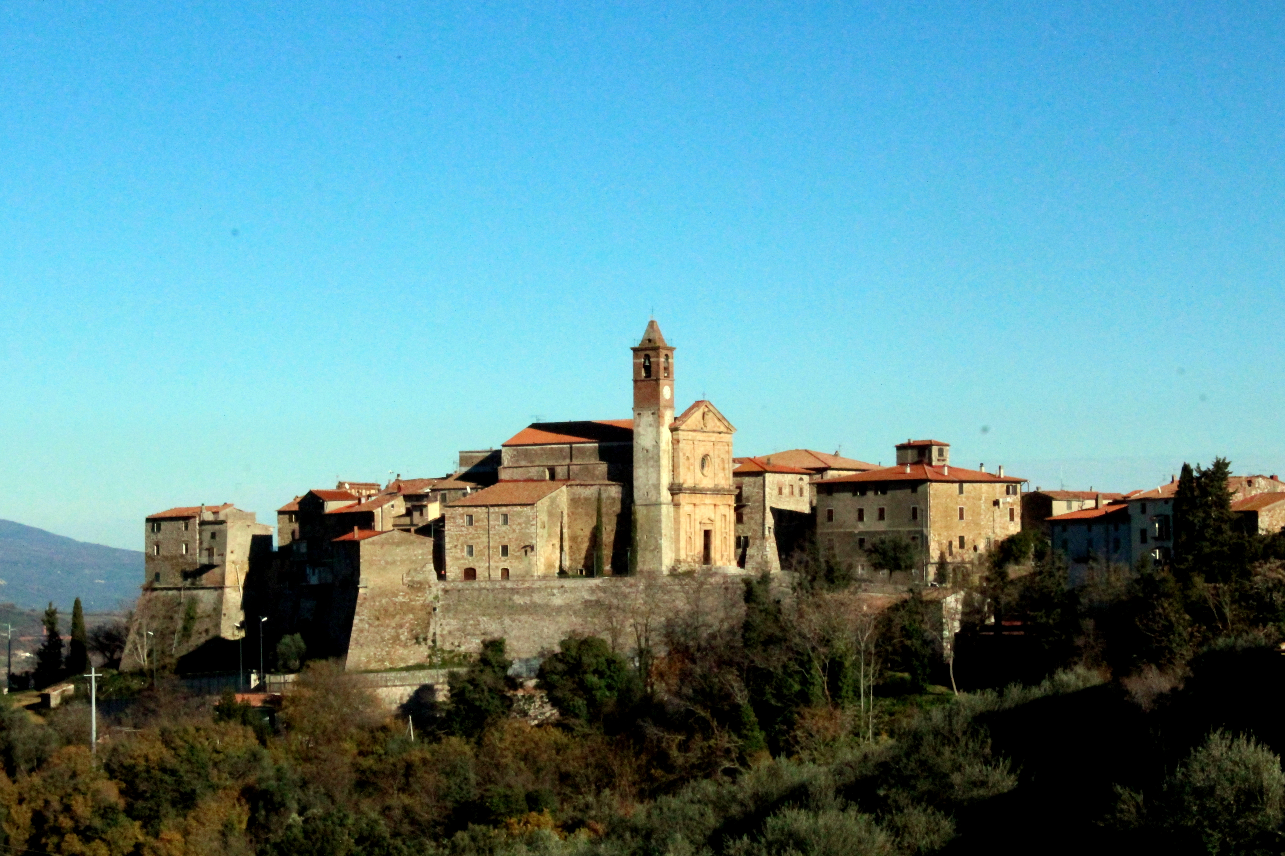 Panorama of Caldana, hamlet of Gavorrano, Maremma, Province of Grosseto, Tuscany, Italy